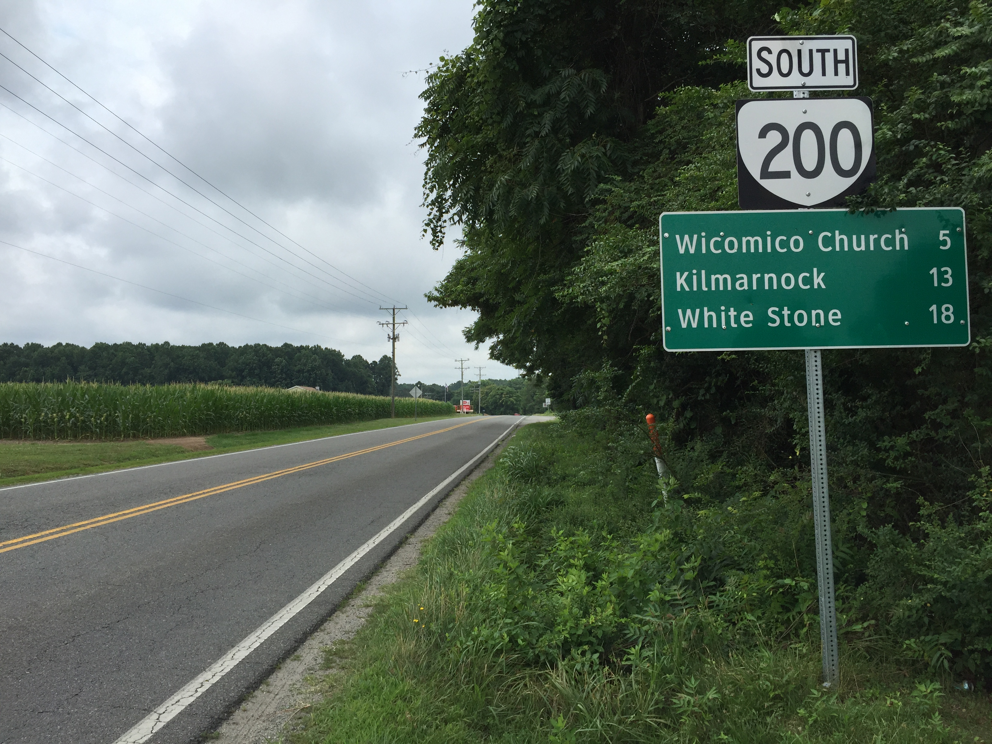 View south along Virginia State Route 200 (Jessie Dupont Memorial Highway) just south of U.S. Route 360 (Northumberland Highway) in Burgess, Northumberland County, Virginia